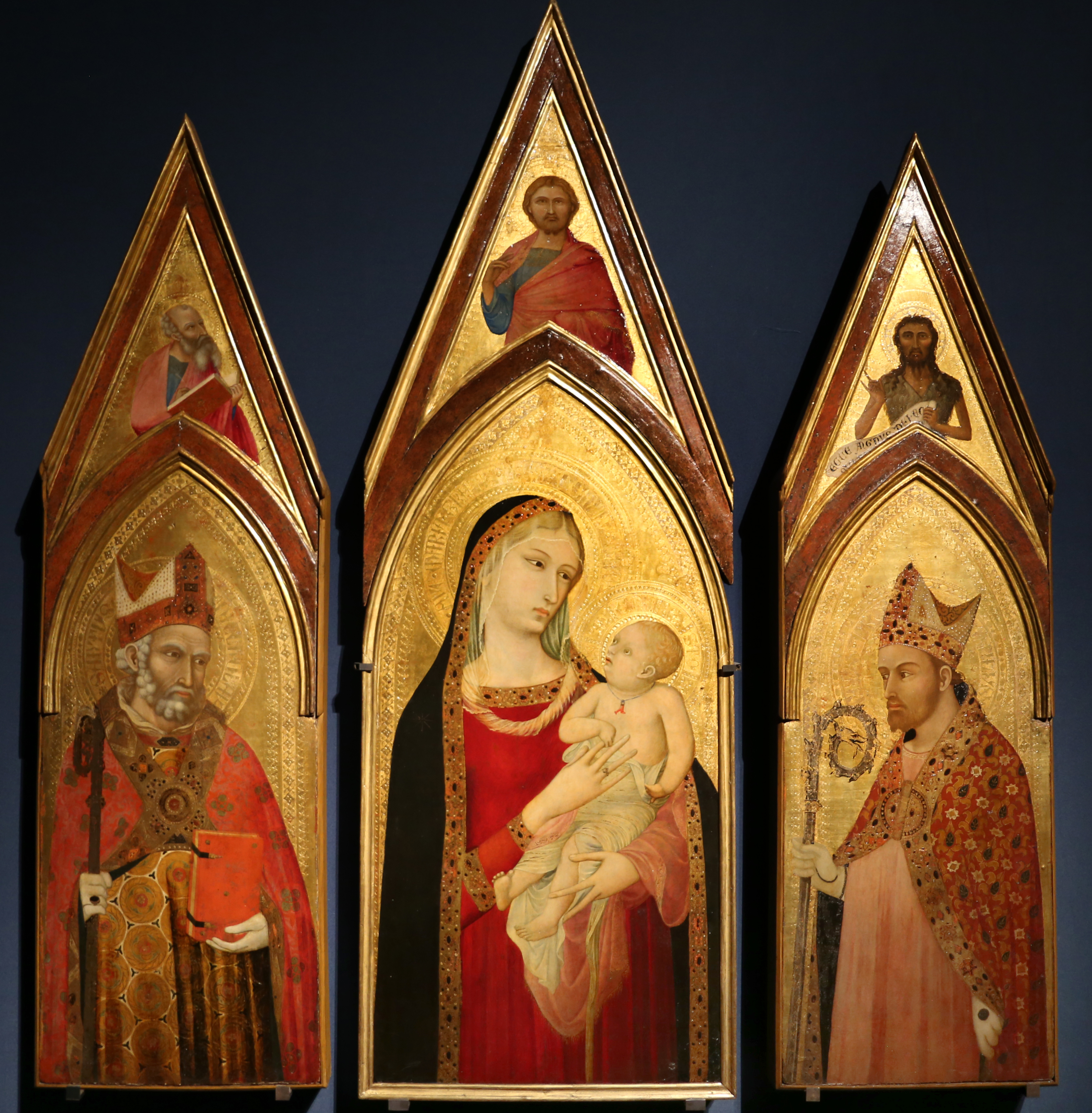 Triptych of Saint Proculus